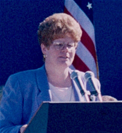 Grace Crunican, then the director of the Oregon Department of Transporation (and a former Deputy Administrator of the Federal Transit Administration), in Hillsboro, Oregon, in 1998. Crunican was speaking at the opening ceremony of the Westside MAX light rail line (now part of the MAX Blue Line), of TriMet.